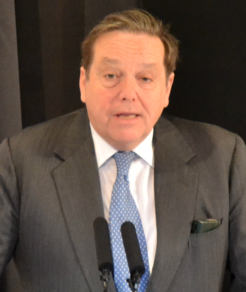 Robert Gascoyne-Cecil, 7th Marquess of Salisbury